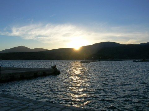 Sunset from a dock in Itea, Greece. Photograph by Robert Bellamy. Taken in March 2006 in Itea, Greece.